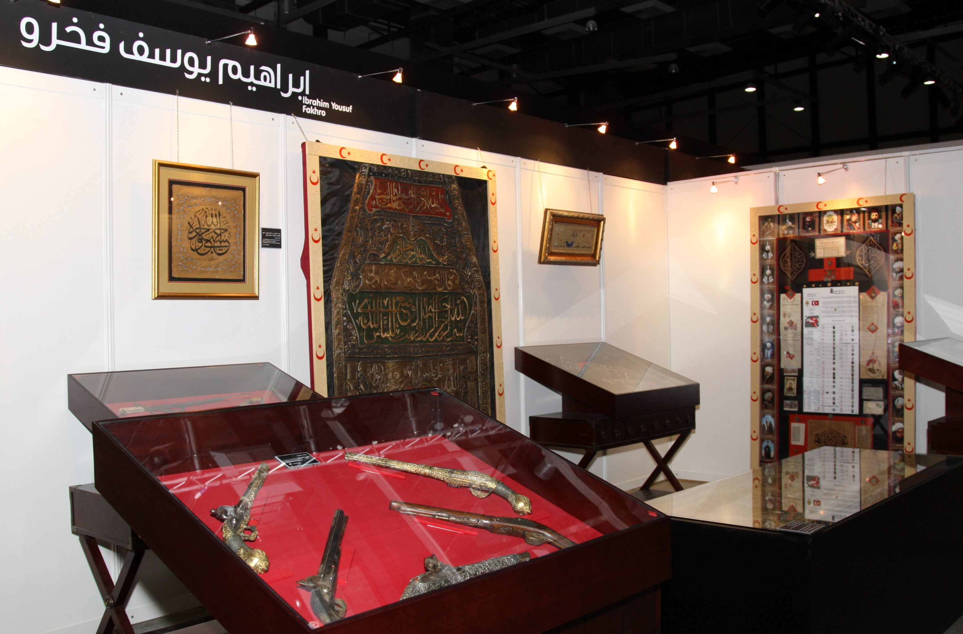 جناح إبراهيم الفخرو في معرض مال لول